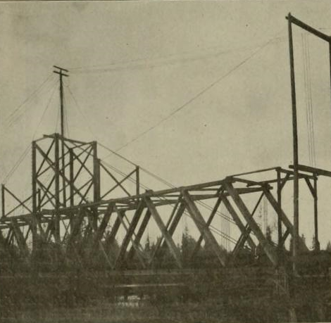 Everett–Snohomish Interurban Line, drawbridge with pivot pole for overhead lines